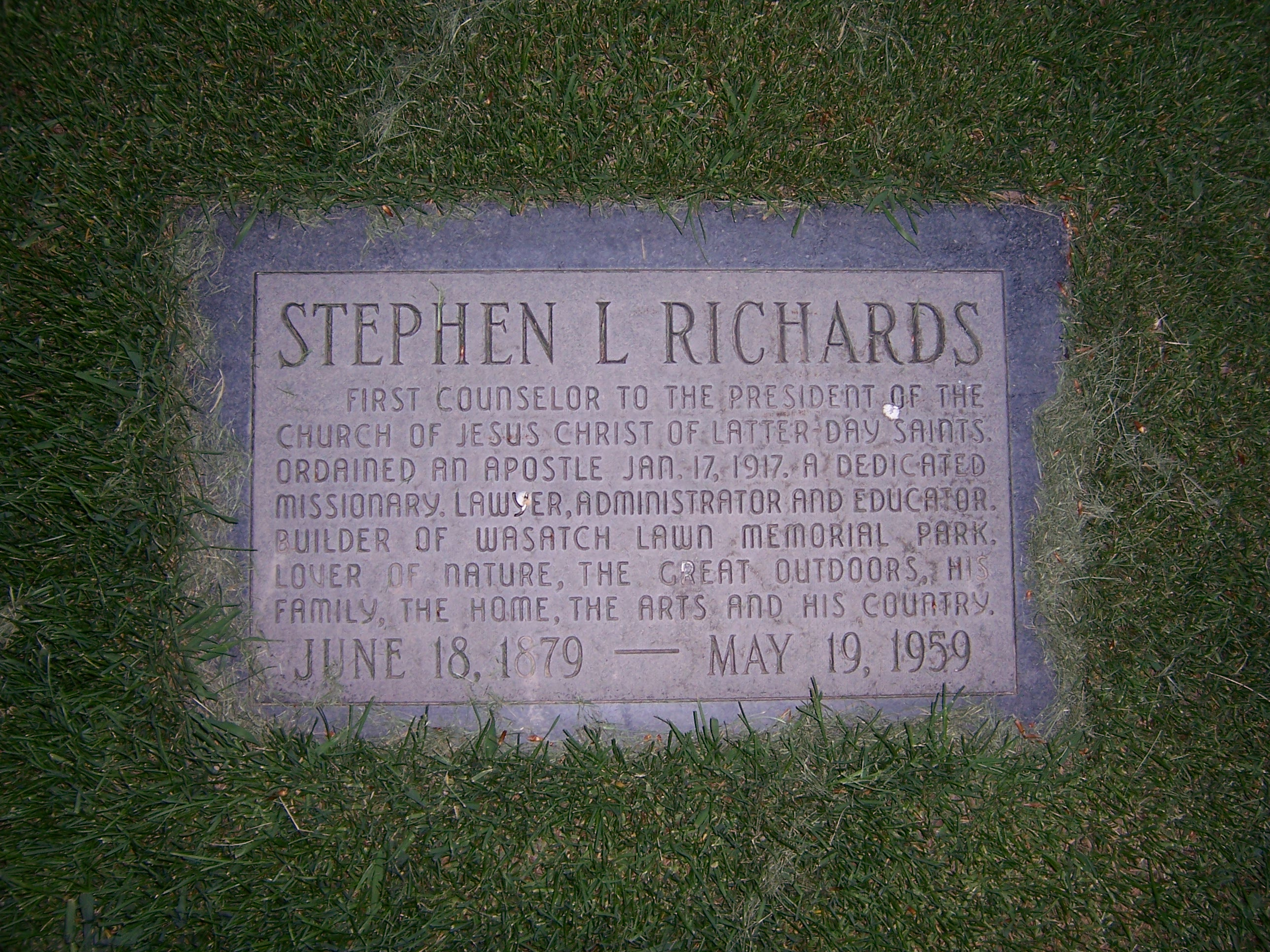 Stephen L Richards' grave marker.